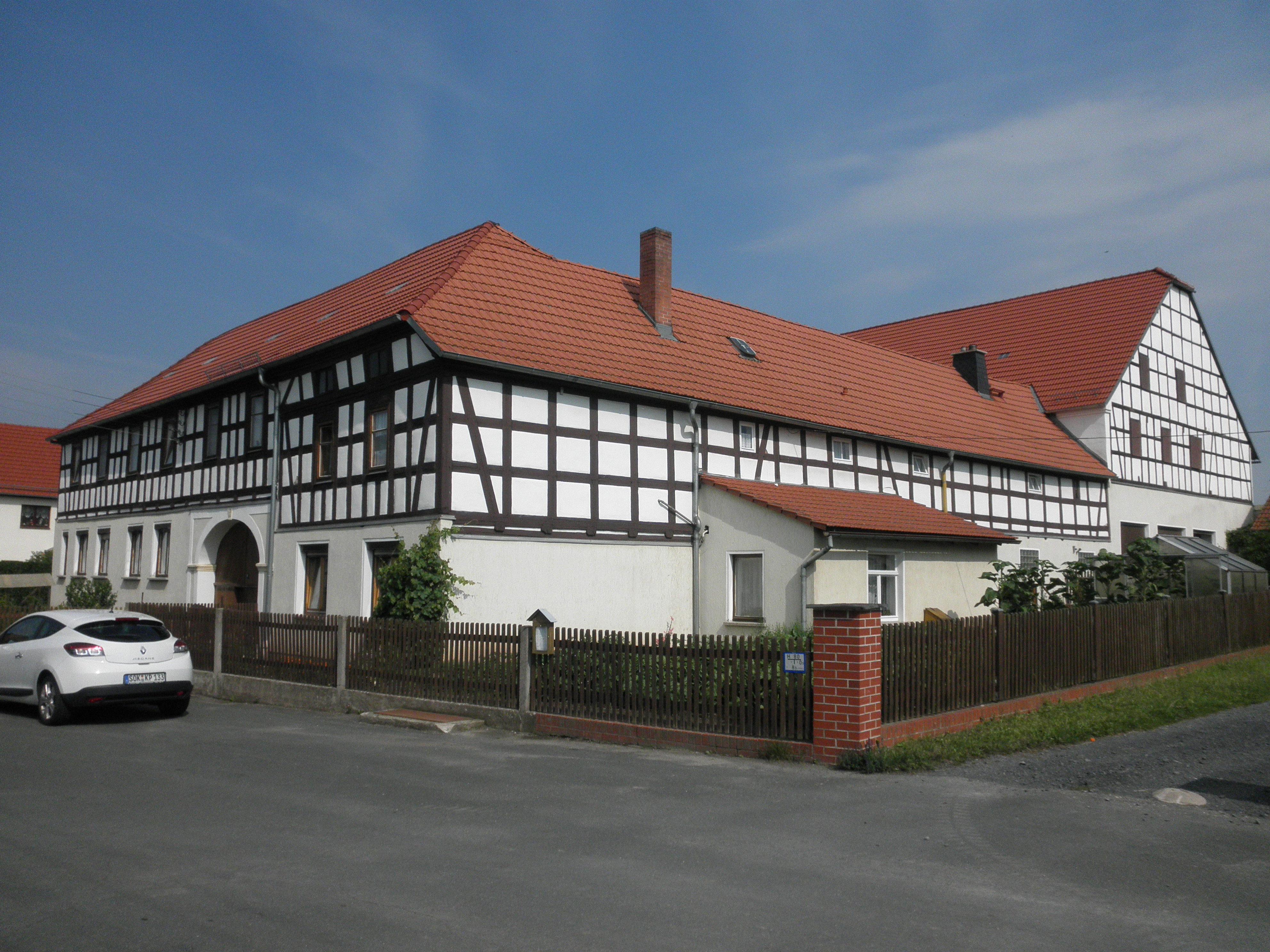 Frame Work in Kopitzsch (Miesitz) in Thuringia